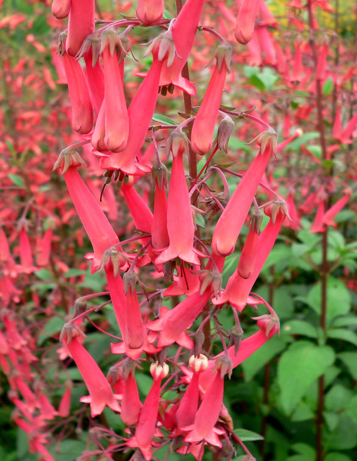 Phygelius capensis (Cape fuchsia) at the UBC Botanical Garden